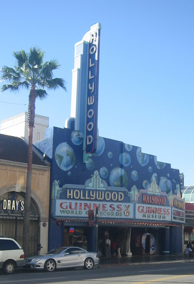 Guinness World Records Museum in Hollywood, CA